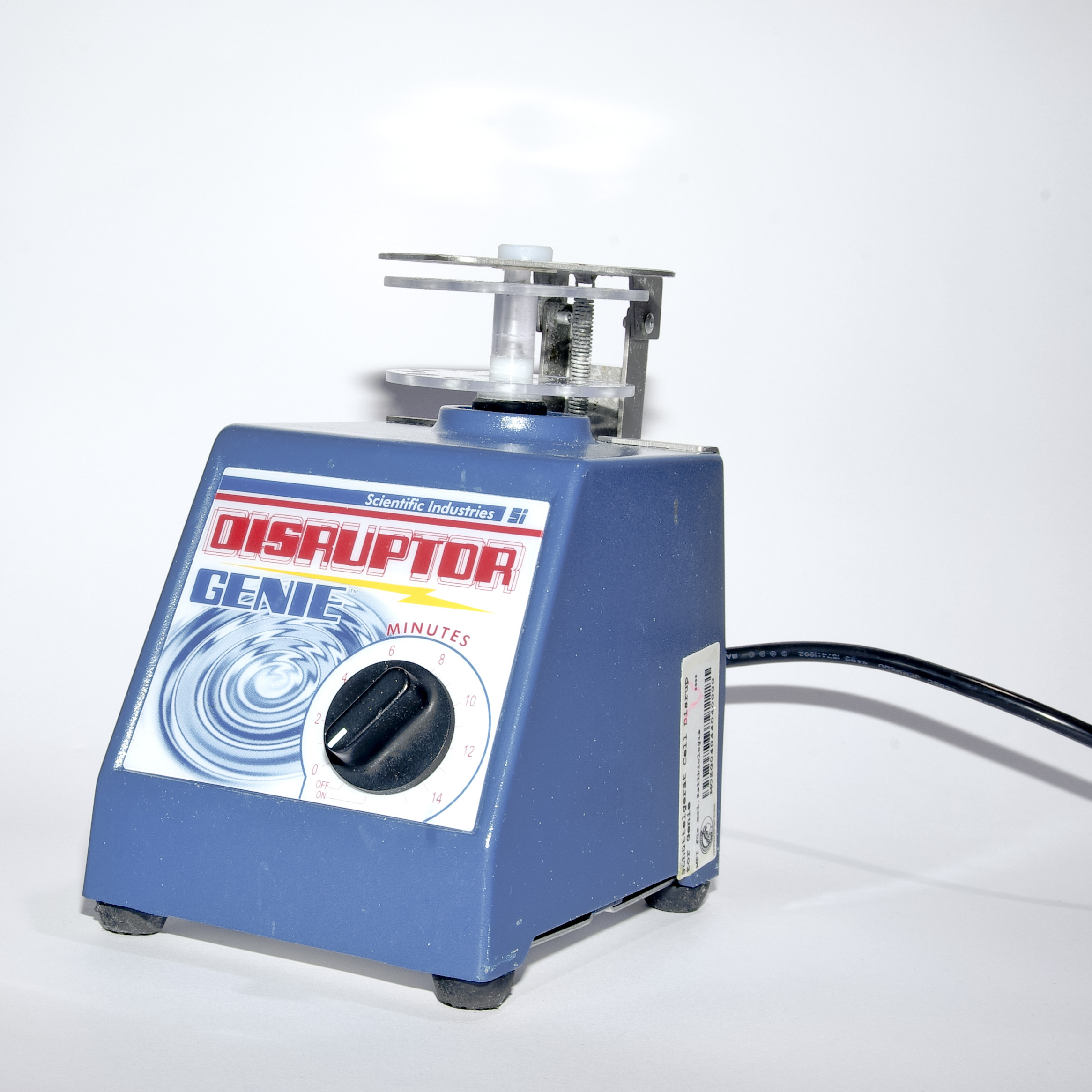 A cell disruptor-Genie